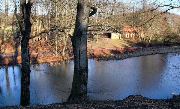 Cottage in Pajhede Skov, Denmark